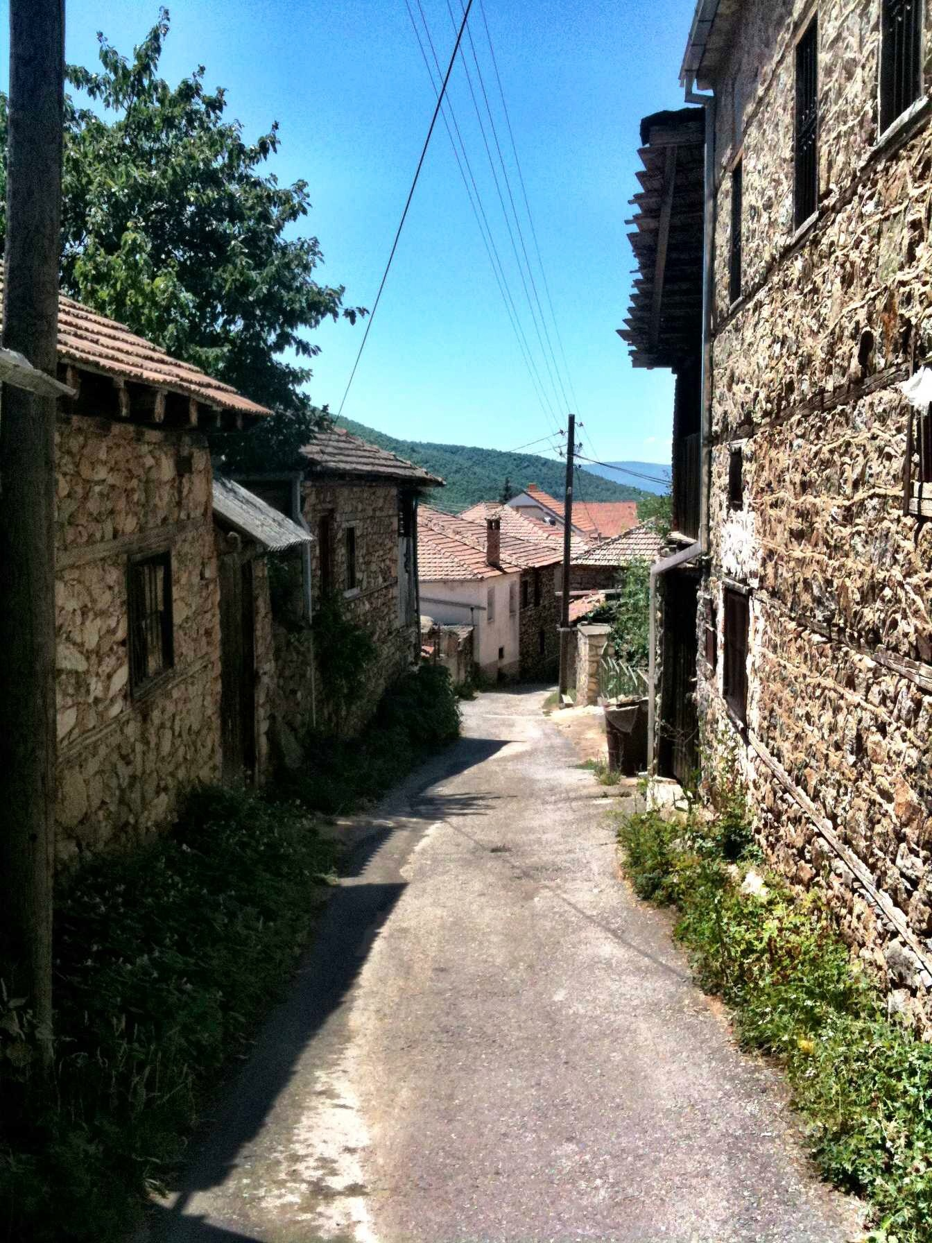 Street in Brajčino, Resen, Macedonia